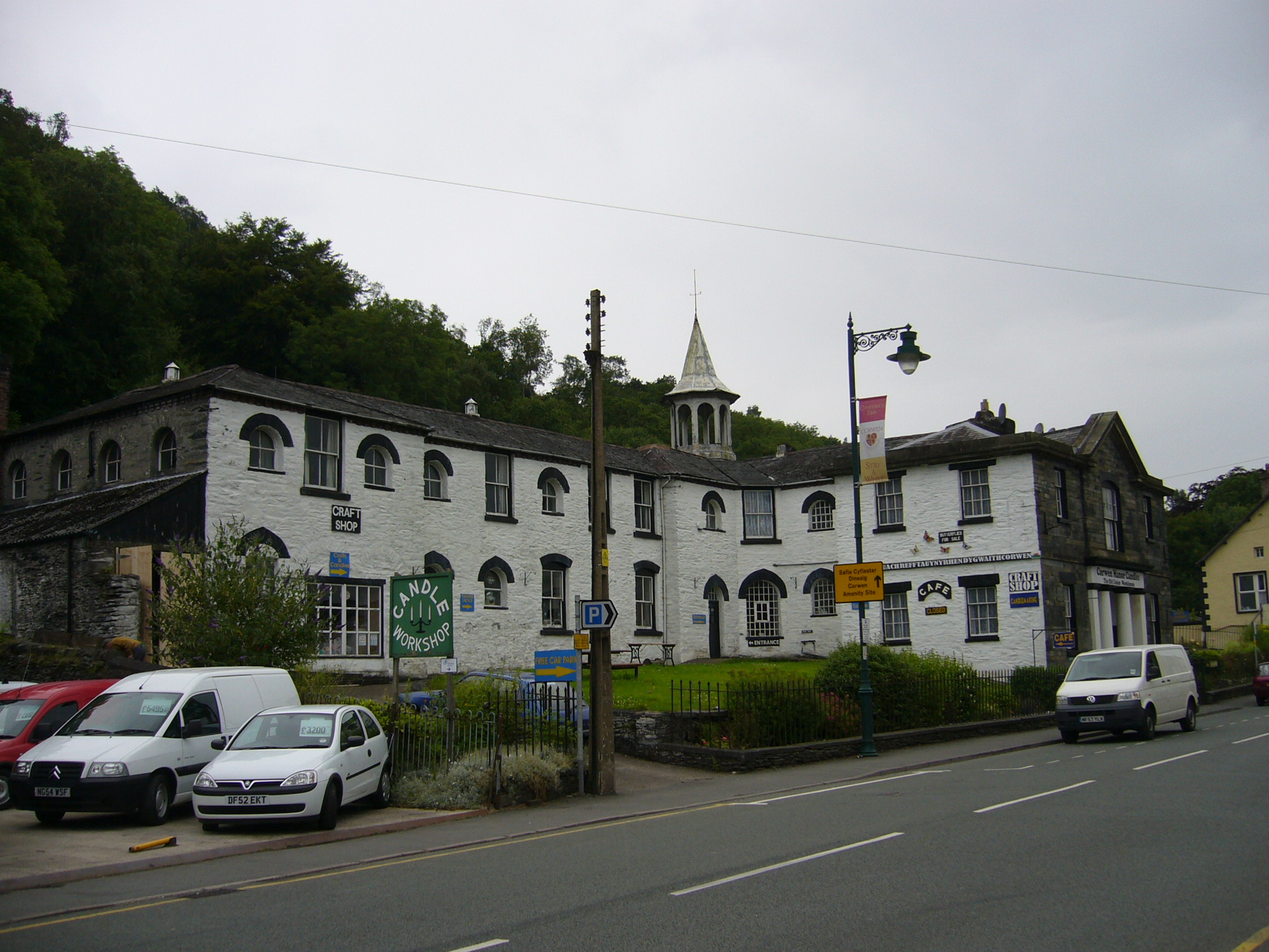 The workhouse in Heol Llundain (London Road), Corwen, Denbighshire. Now used as a craft workshop. Description at .uk